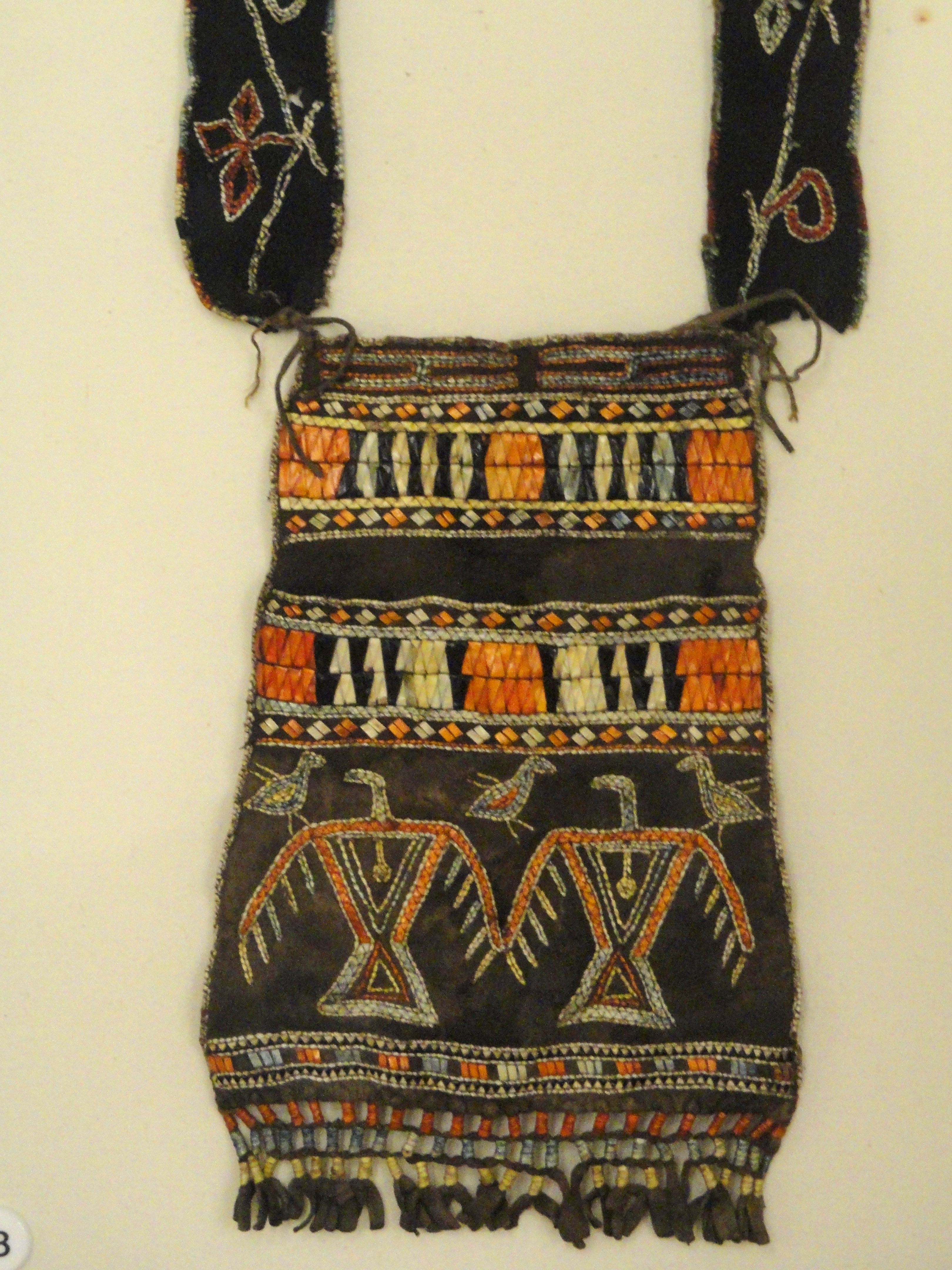 Pouch, southeastern Ojibwa, with porcupine quills, from Boston Museum Collection. Exhibit from the Native American Collection, Peabody Museum, Harvard University, Cambridge, Massachusetts, USA. Photography was permitted without restriction; exhibit is old enough so that it is in the public domain.